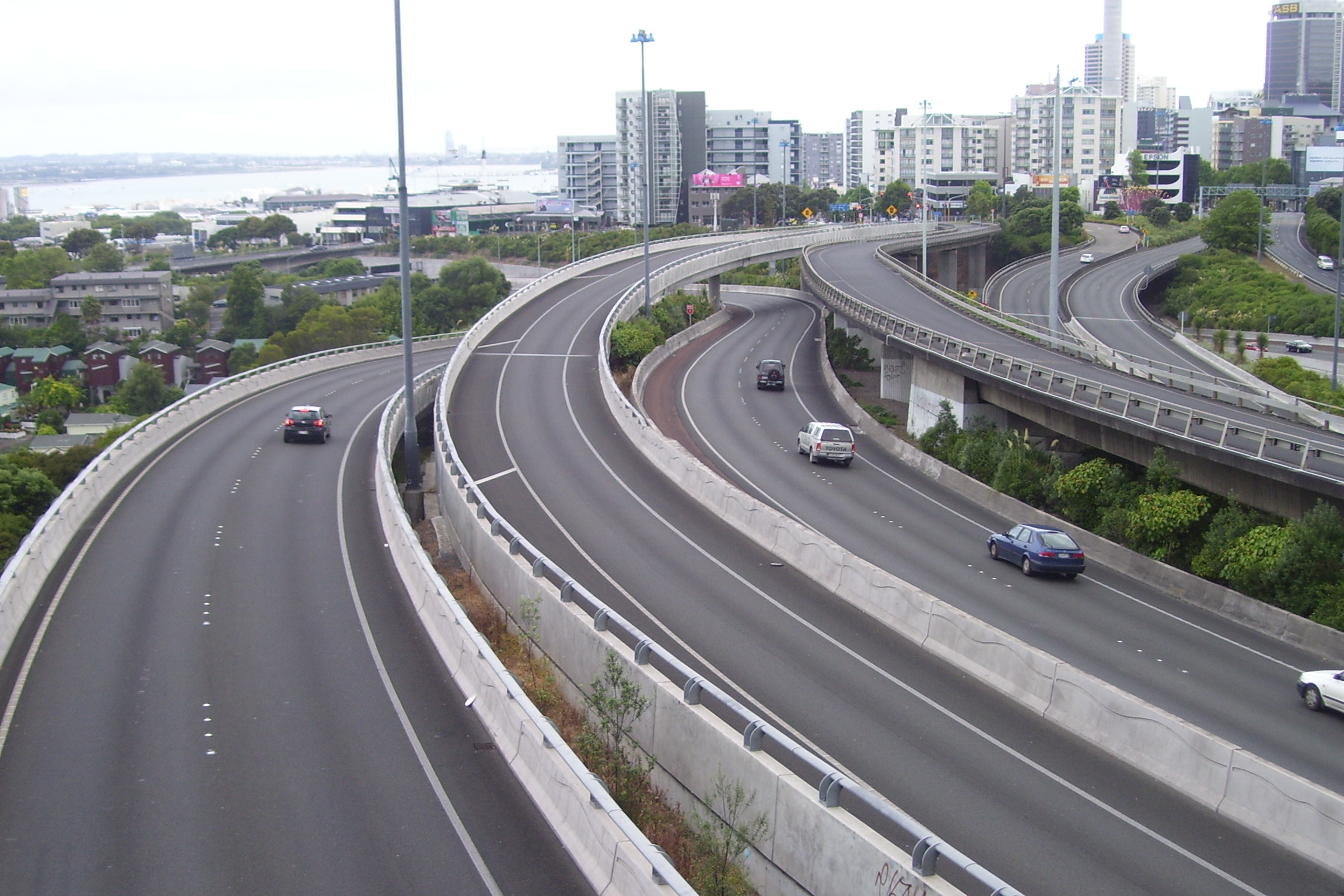 North-east view over the Central Motorway Junction from the Hopetoun Street Bridge, Auckland, New Zealand. Northern section of the Central Motorway Junction showing links and ramps; (from left to right) Northwestern Motorway to Northern Motorway link, Nelson Street off-ramp, Southern to Northern Motorway link, the old (now closed) Nelson Street off-ramp, Northwestern Motorway to Nelson Street off-ramp, Hobson Street to Northwestern Motorway on-ramp and (far right) Hobson Street to CMJ southbound.